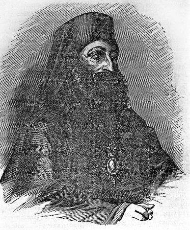 Ierotheos, Patriarch of Antiocheia (1800-1885)